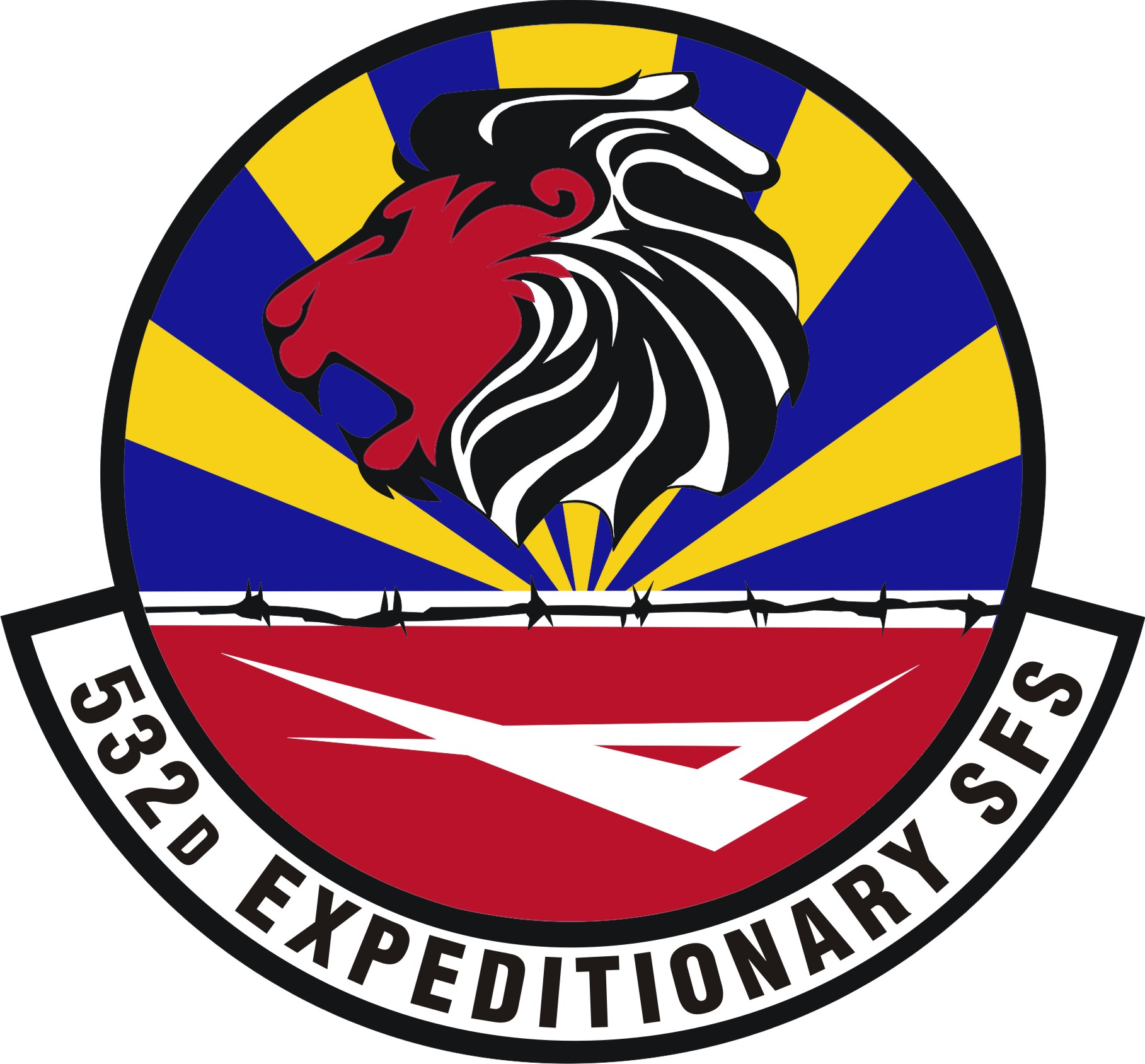 532d Expeditionary Security Forces Squadron - Emblem